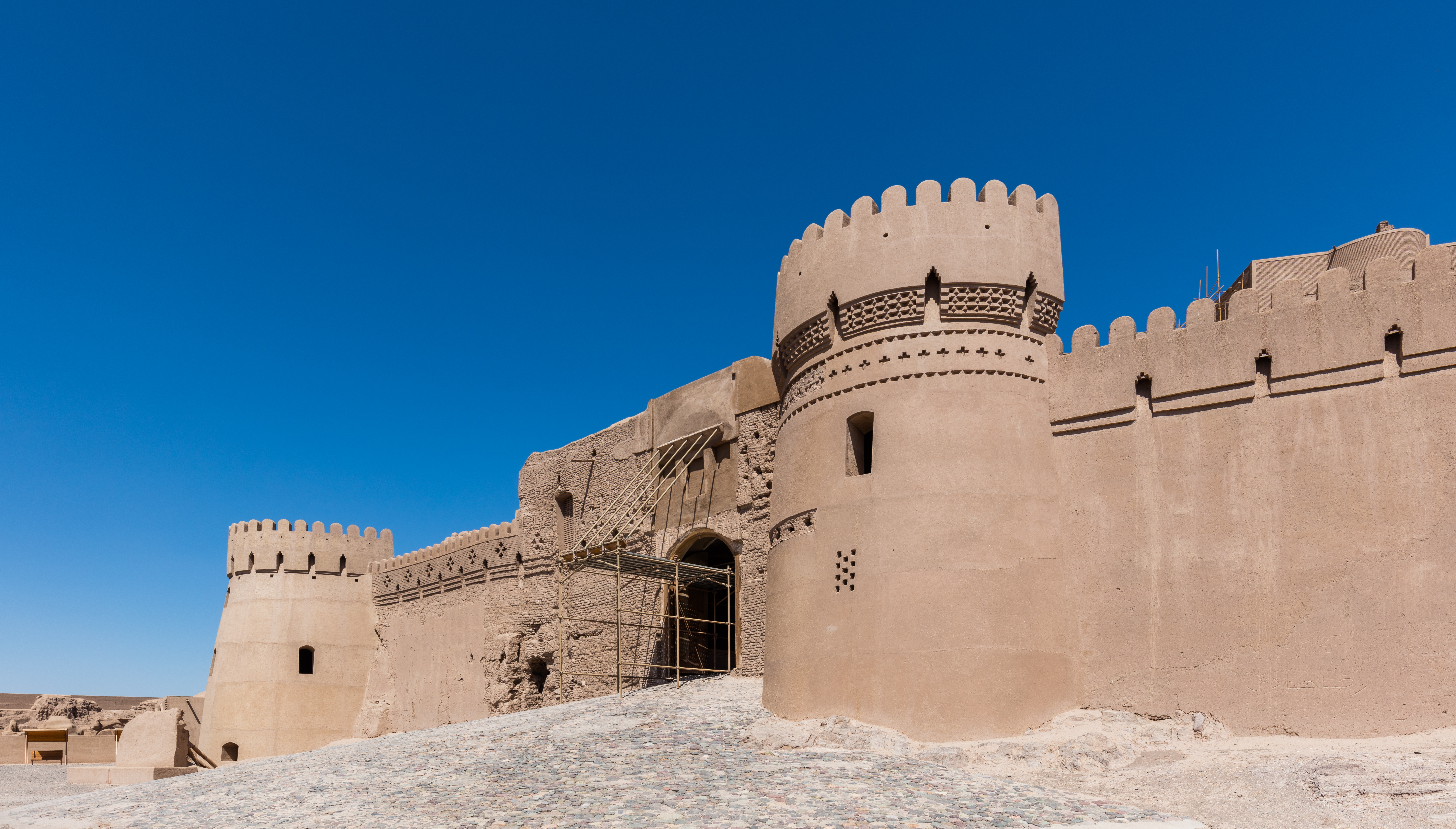 Fortress of Bam, Iran